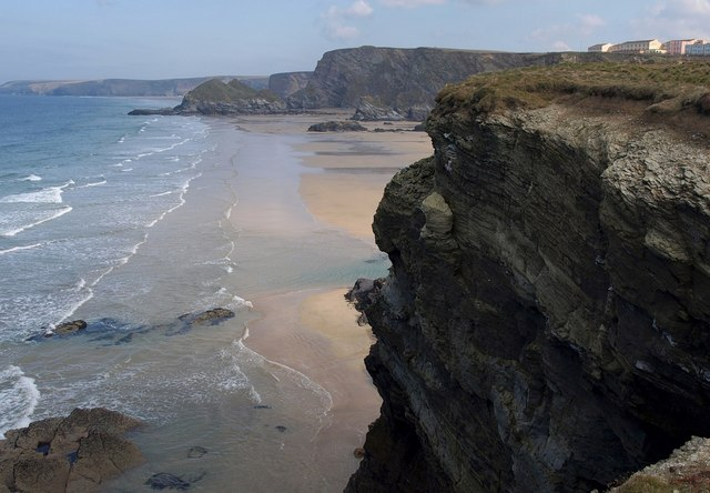 Whipsiderry Beach. Seen from the clifftop coast path near 1759333. The further part of the beach, with the rocks and Zacry's Islands, is in SW8363.